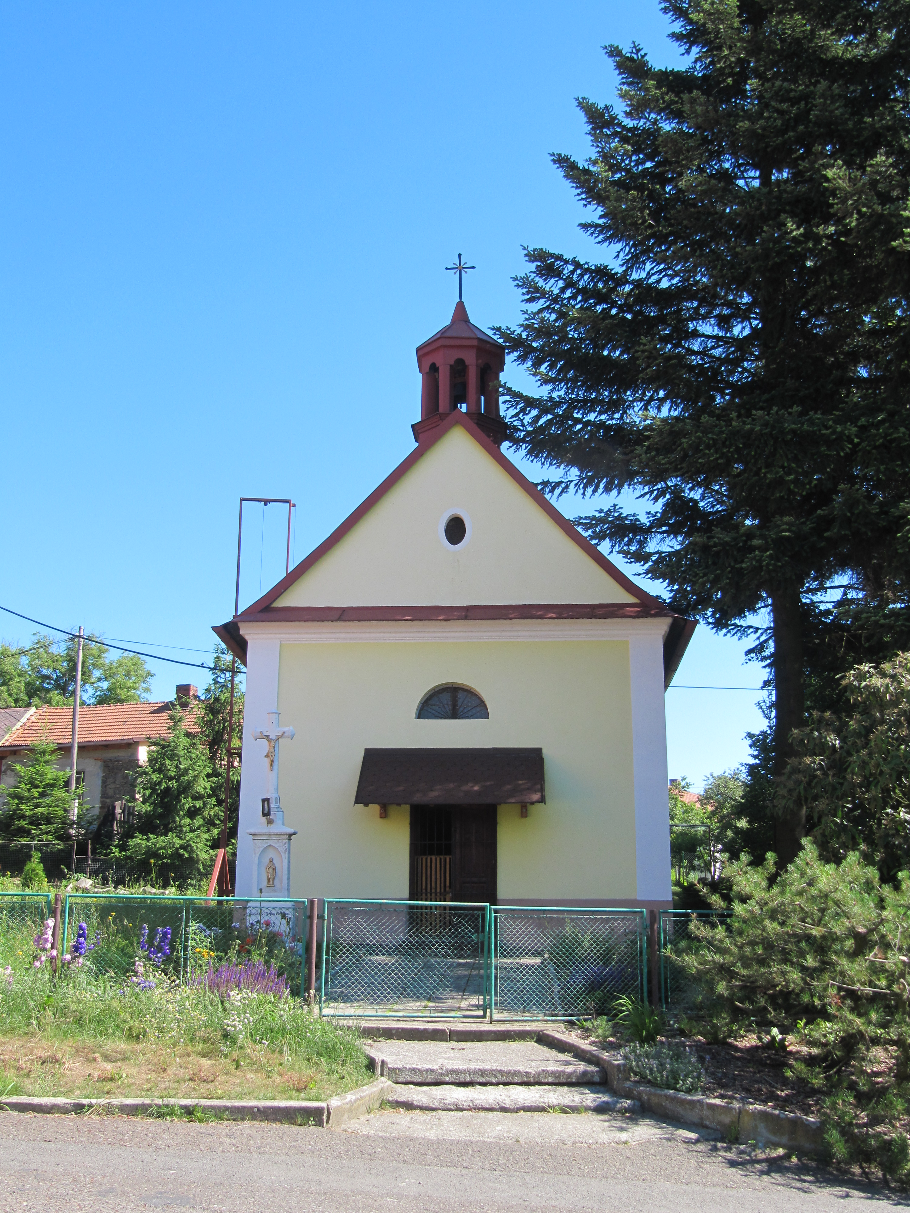 Fulnek, Nový Jičín District, Czech Republic, part Jílovec.